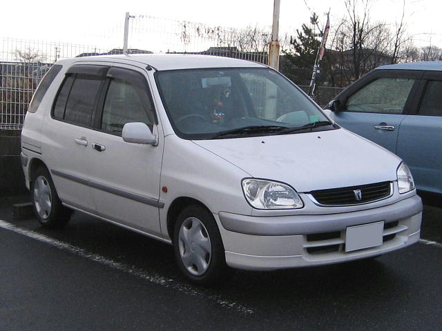 Toyota "Raum" (Z10 / 1st generation) 1999/8-2003/5